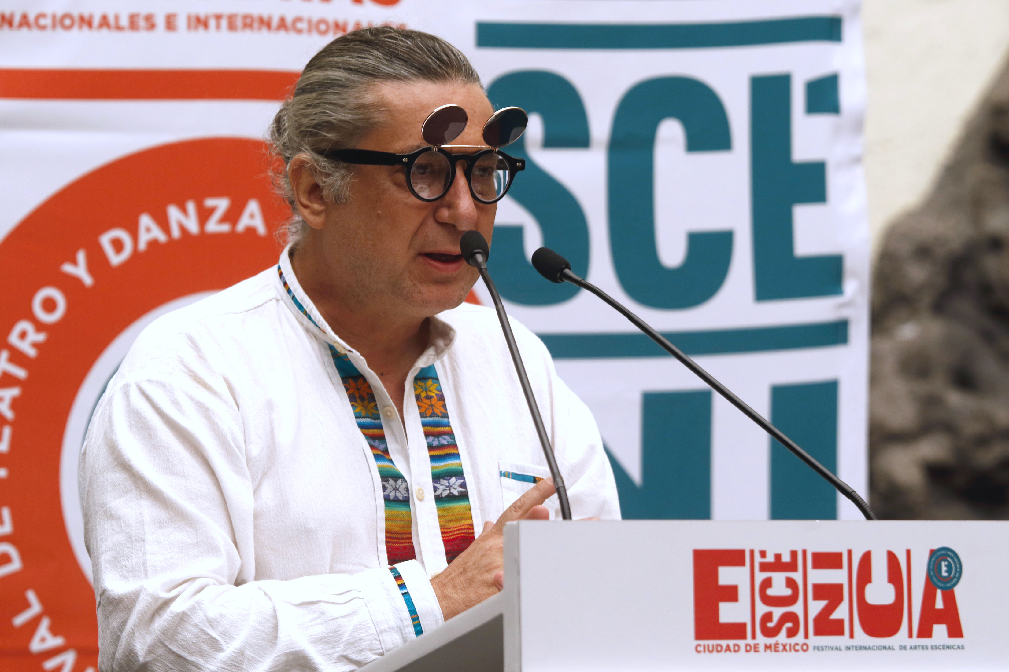 Jaime Chabaud at the presentation of upcoming Art and Theatre Festival in Mexico City. Tuesday, 23 July, 2019. Picture by Milton Martínez / Secretaría de Cultura de la Ciudad de México